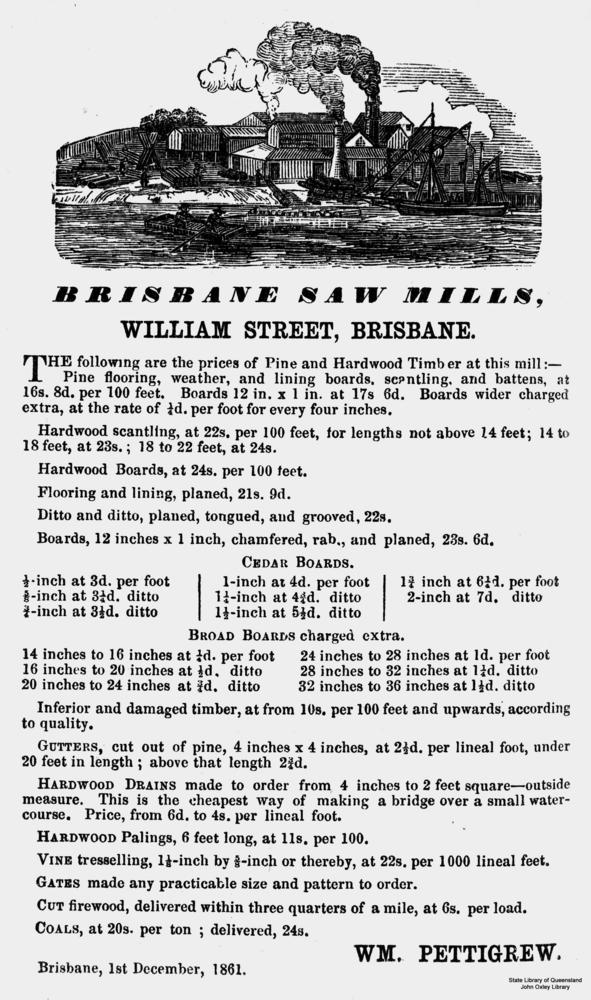 Advertisement for Brisbane Saw Mills, William Street, Brisbane, 1861 Advertisement for William Pettigrew's Brisbane Saw Mills, William Street, Brisbane. Includes a sketch or lithograph of the mill on Brisbane River, as well as prices for various products including pine and hardwood timber flooring, chamferboards, palings and gates. Advertisement appeared in Pugh's Almanac in 1862, and is dated 1 December, 1861.